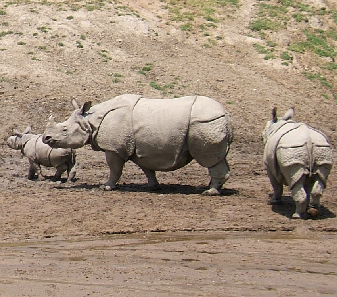 A baby, adult female, and immature female (left to right) Indian Rhinoceros at the San Diego Zoo's Wild Animal Park in Escondido, CA. This is an original work created by me and released under the following license: (only the baby rhino here is a male. His name is Soman, born at the San Diego Zoo's Wild Animal Park in late February 2005. The large rhino in the middle is not a male but is actually Soman's mother, named Gulpara. She is the largest Indian rhino currently at the WAP and one of the heaviest known. On the right is an approximately 4-year-old juvenile female rhino, Asha, who is also Gulpara's child. Both of the young rhinos were fathered by Aroun, the lone adult male Indian rhino at the WAP. However, male Indian rhinos are solitary and do not engage in parental care, at least not at the Wild Animal Park.)